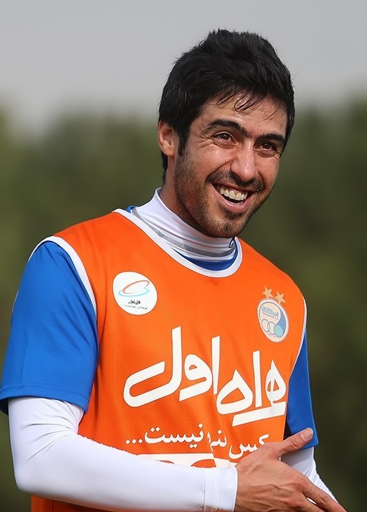 Khosro Heydari